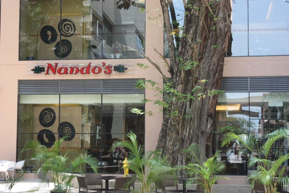 Nando's. Spotted: Gurney Plaza, Penang, Malaysia. Gist: Flame-grilled Peri-Peri Afro-Portuguese chicken . Oddity: Peri 3 Bean Salad, which is nowhere to be seen on the US menu. Origin: South Africa, 1987. Locations: Australia, Bahrain, Bangladesh, Botswana, Canada, Cyprus, Fiji, India, Ireland, Kuwait, Lebanon, Lesotho, Malawi, Malaysia, Mauritius, Namibia, New Zealand, Nigeria, Oman, Pakistan, Qatar, South Africa, Swaziland, Turkey, UAE, UK, US (had no idea there were two in D.C.), Zimbabwe.